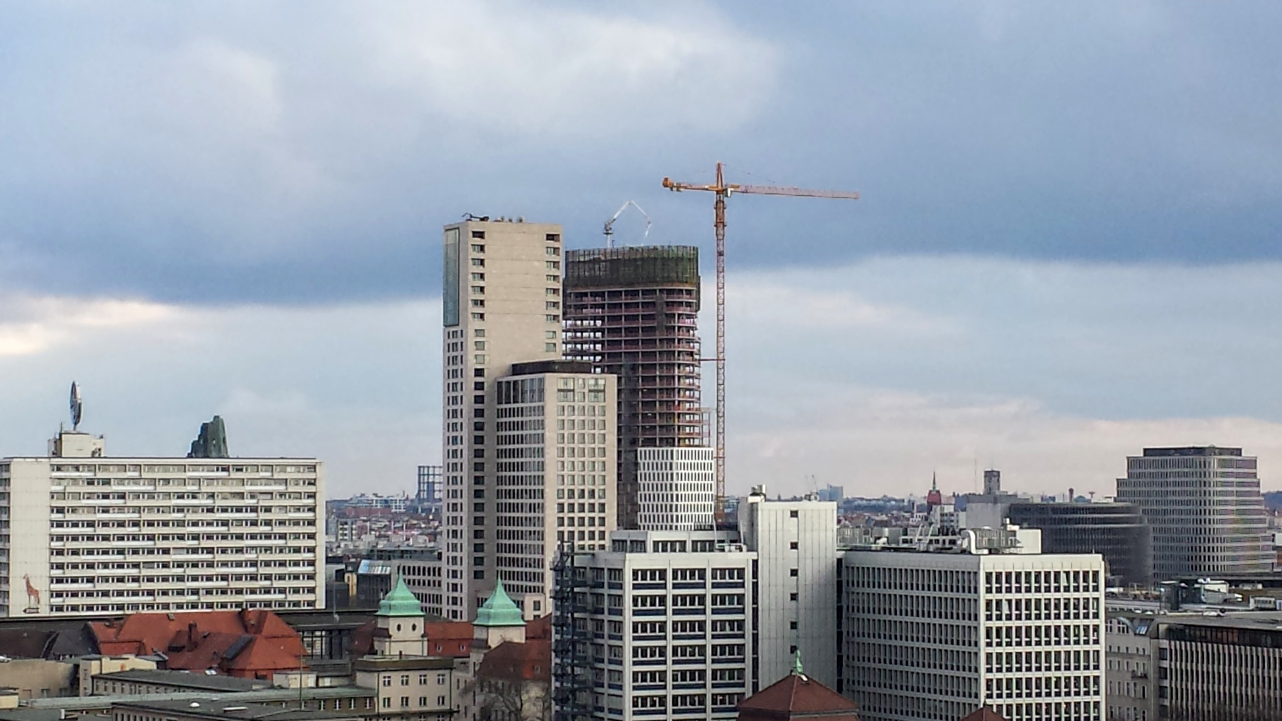 Construction of the Upper West tower in Berlin-Charlottenburg